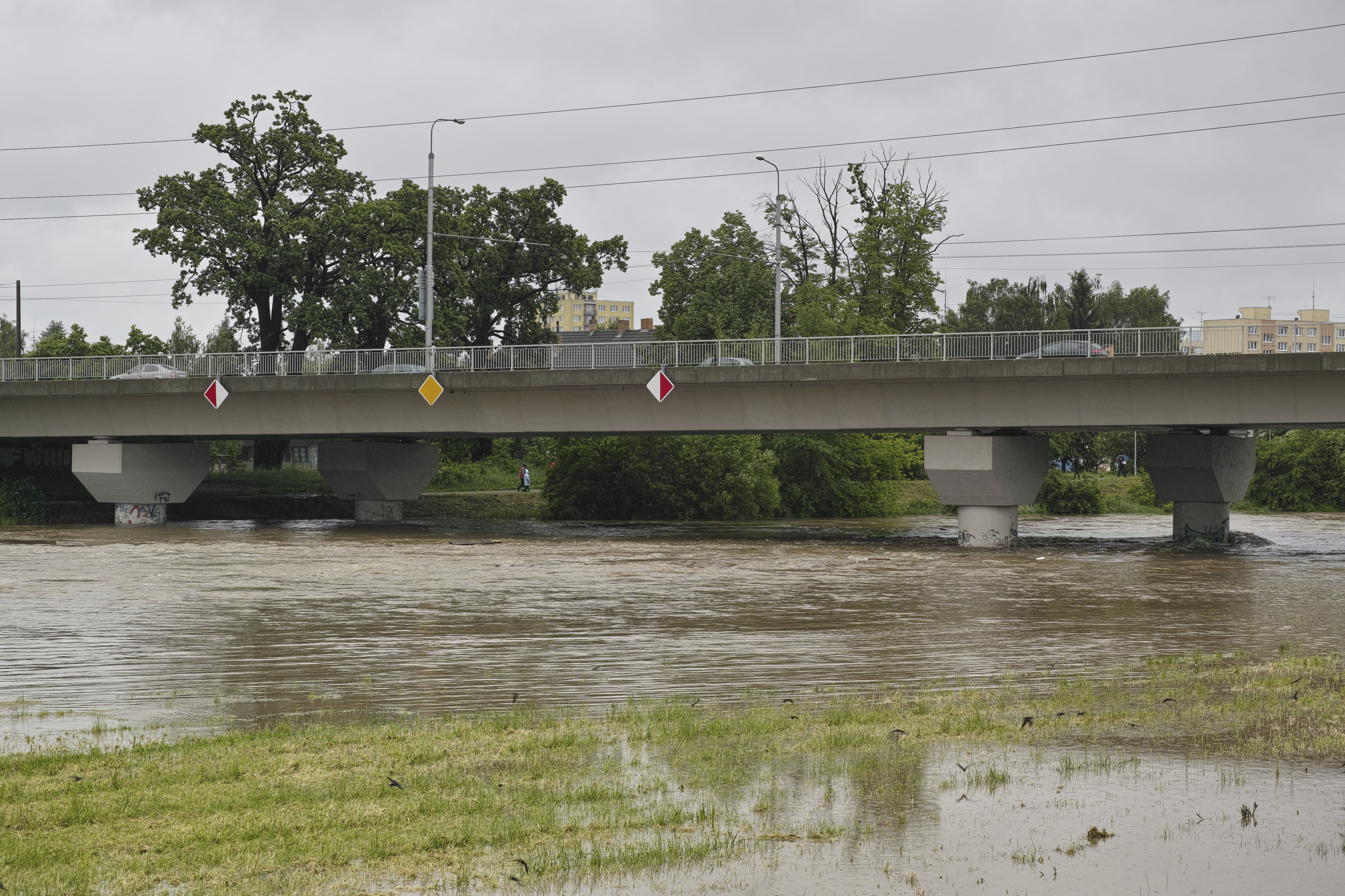 Vltava river, České Budějovice, 2013-06-02, 500 m³/s